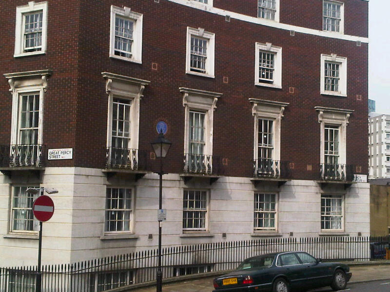 La casa di Lenin in Percy Circus, Londra